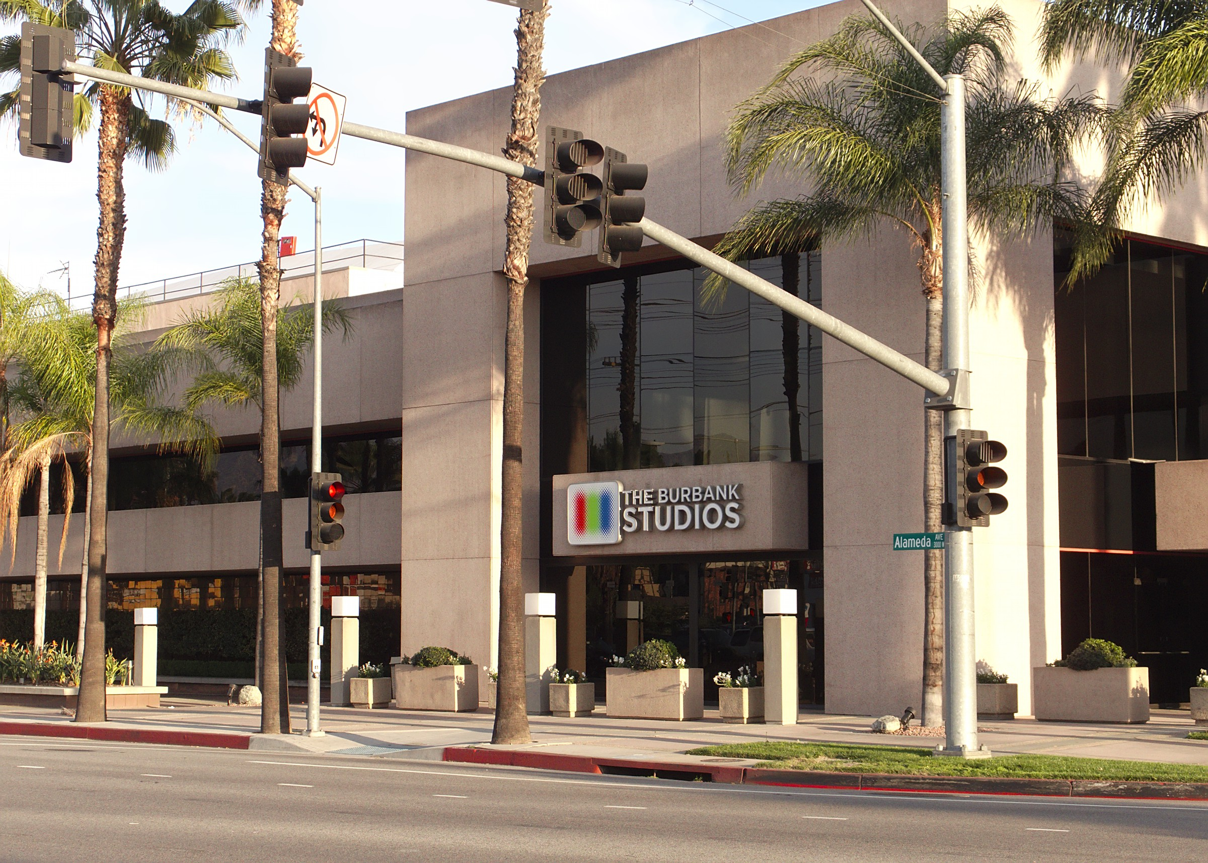 The Burbank Studios, once owned by NBC and home to The Tonight Show.